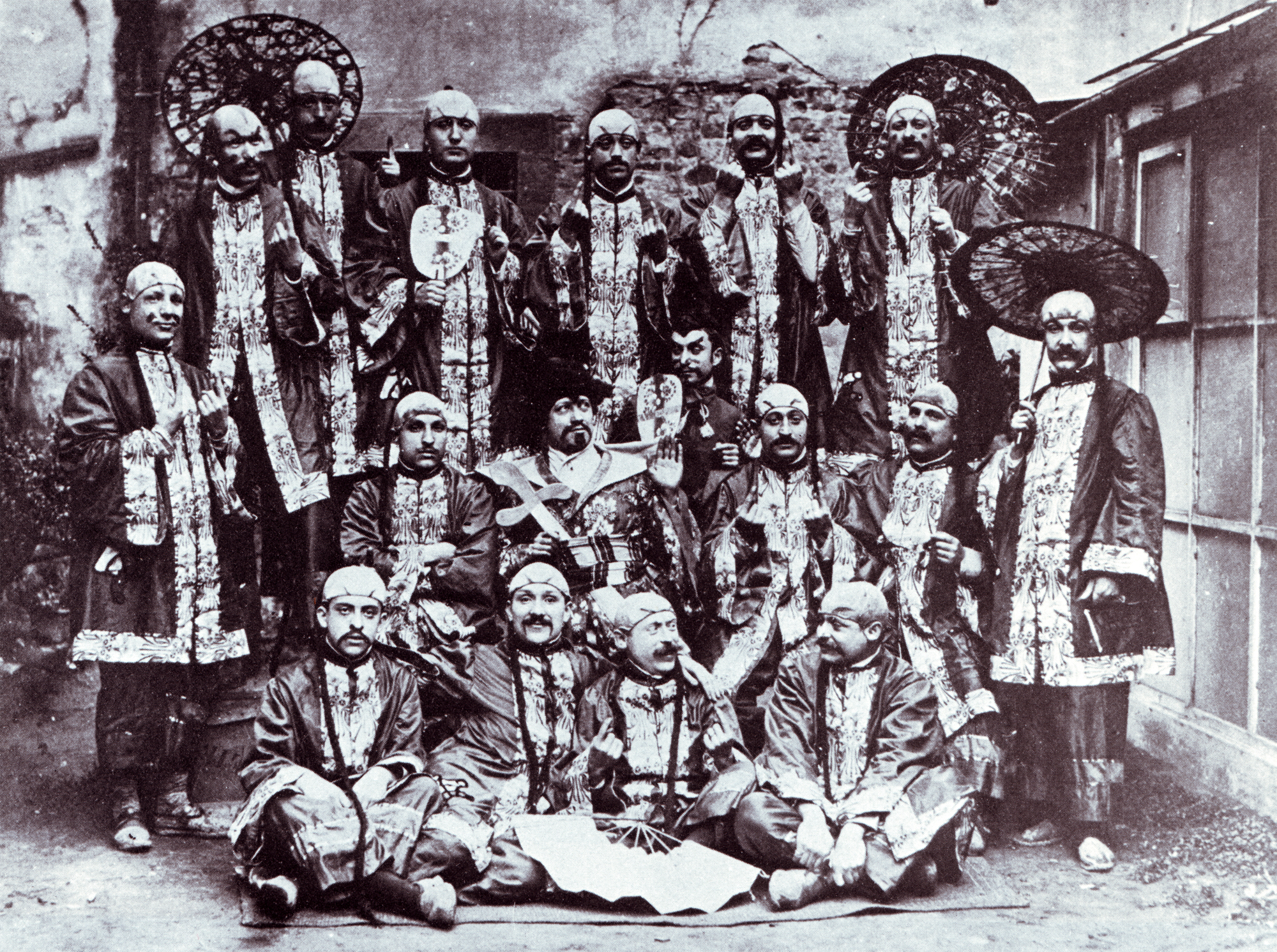 Company of players from Montevarchi